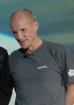 Cropped from Star Wars Celebration II - Hayden Christensen, Anthony Daniels, and Nick Gillard